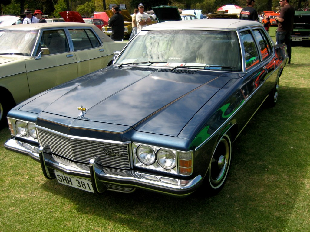 1976–1977 Statesman HX Caprice sedan, photographed in South Australia, Australia.